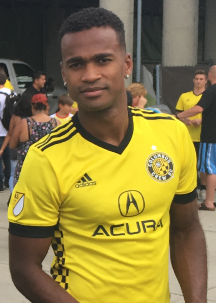 Picture of Ola Kamara at a Columbus Crew SC Meet the Team event in 2017.